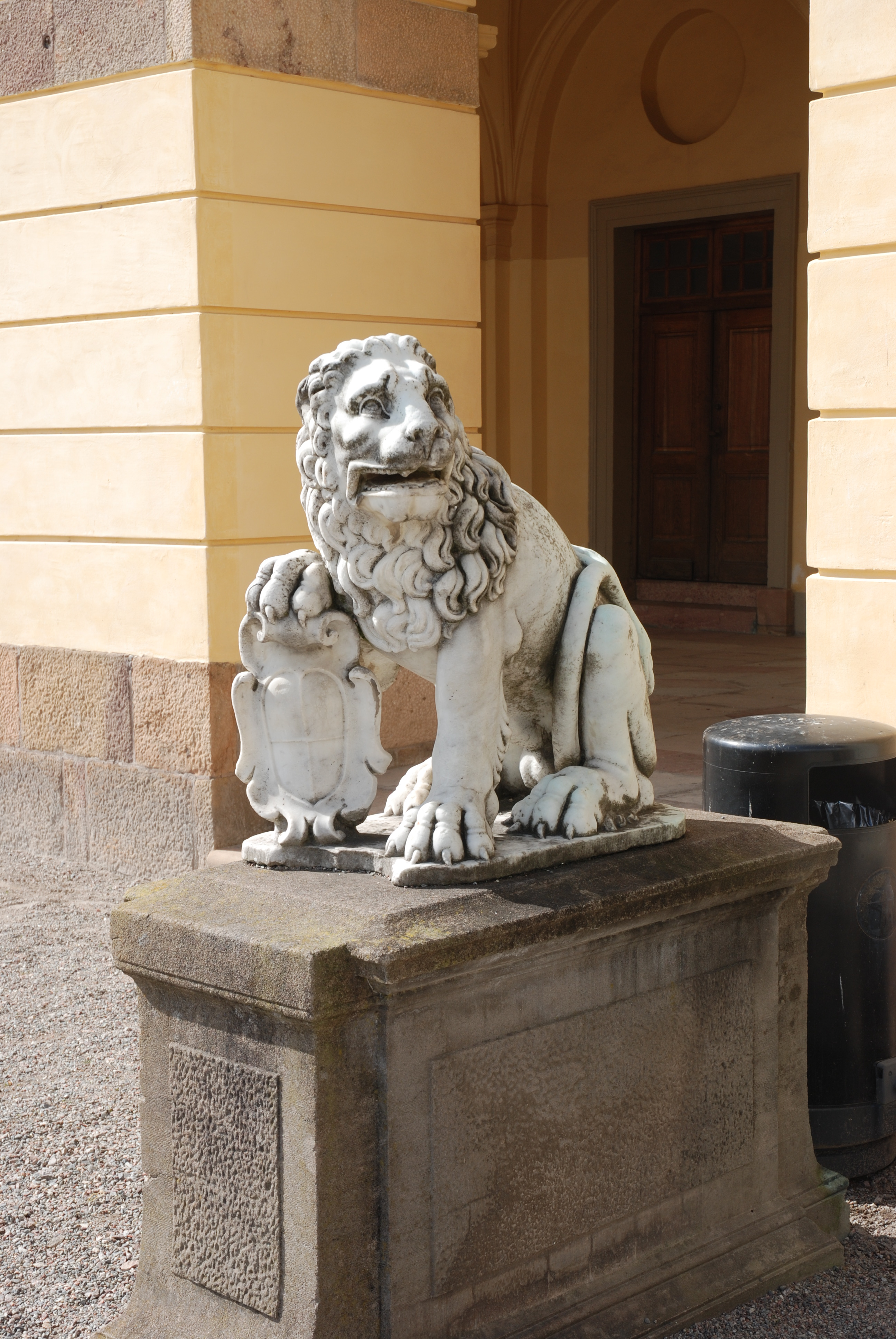 Marble lion at the entrance of Drottningholm Castle, unknown origin